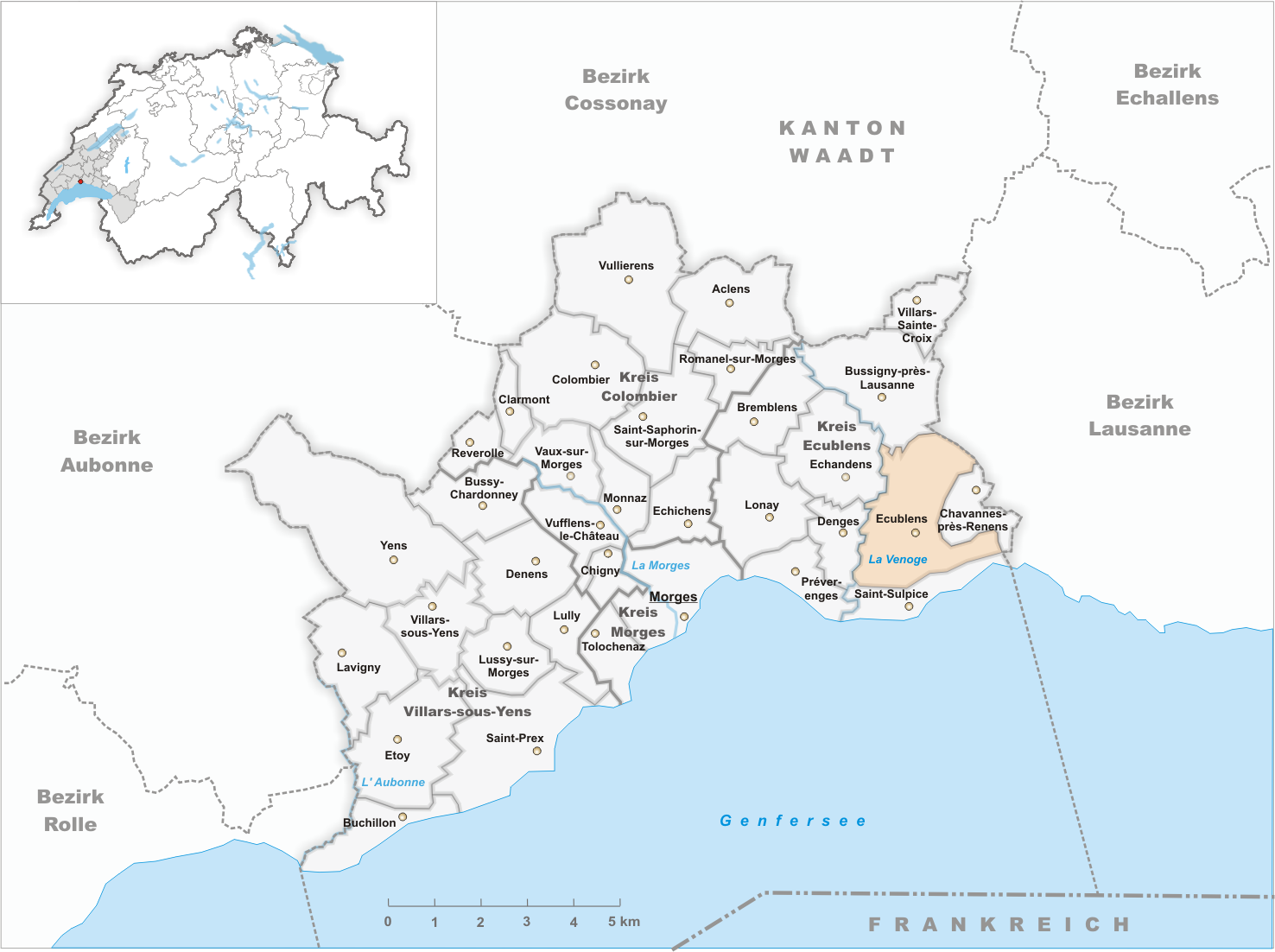 Municipality Ecublens